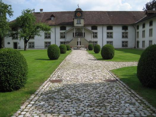 Fraubrunnen Castle seen from the north.